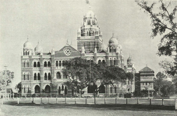 Partially destroyed by fire the night the Prince of Wales left Bombay, Nov. 1906.